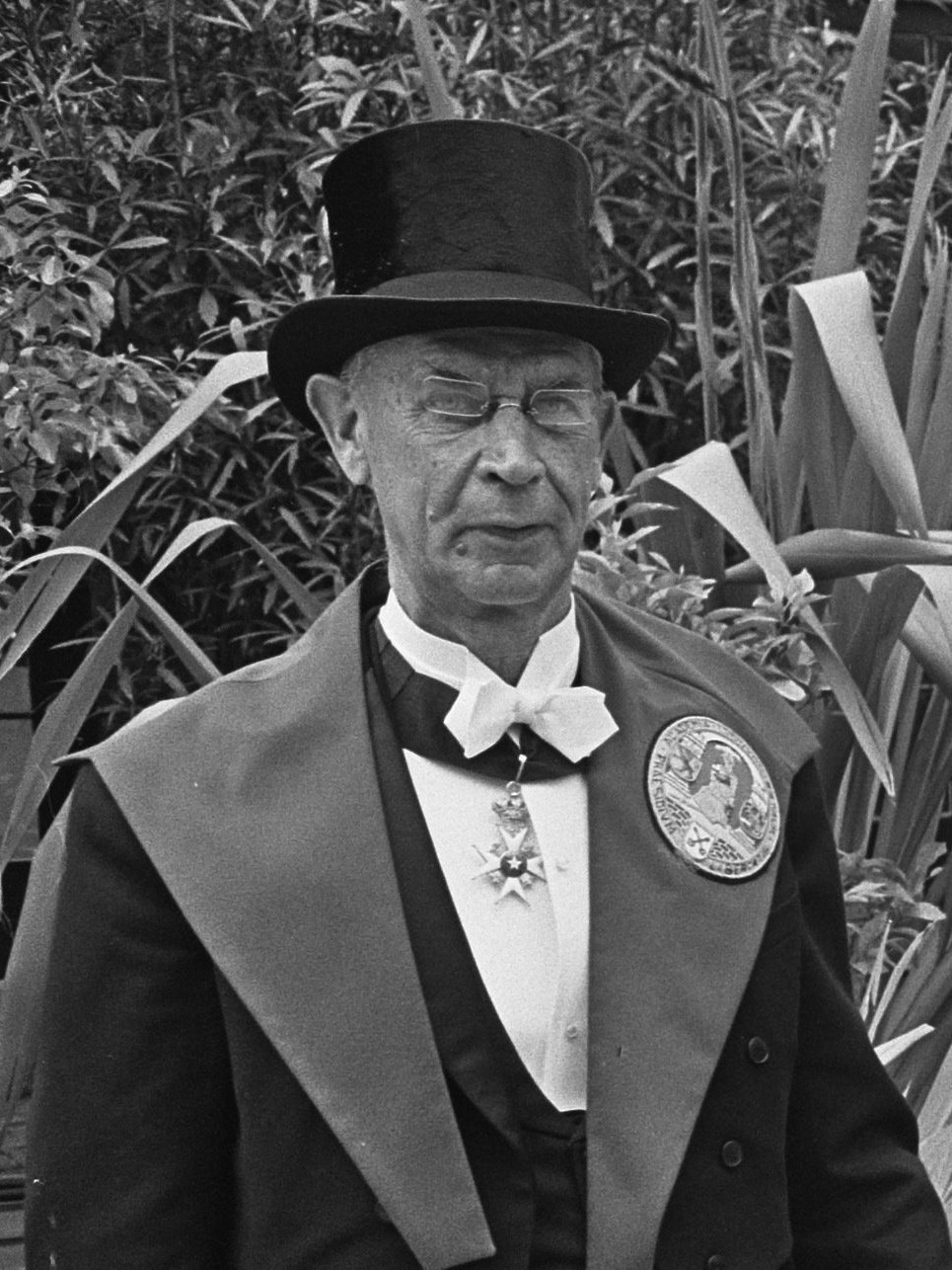 Ivar Waller, honorary doctorate Leiden University July 1965